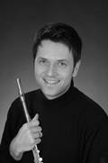 German Flutist, Stuttgarter Philharmoniker